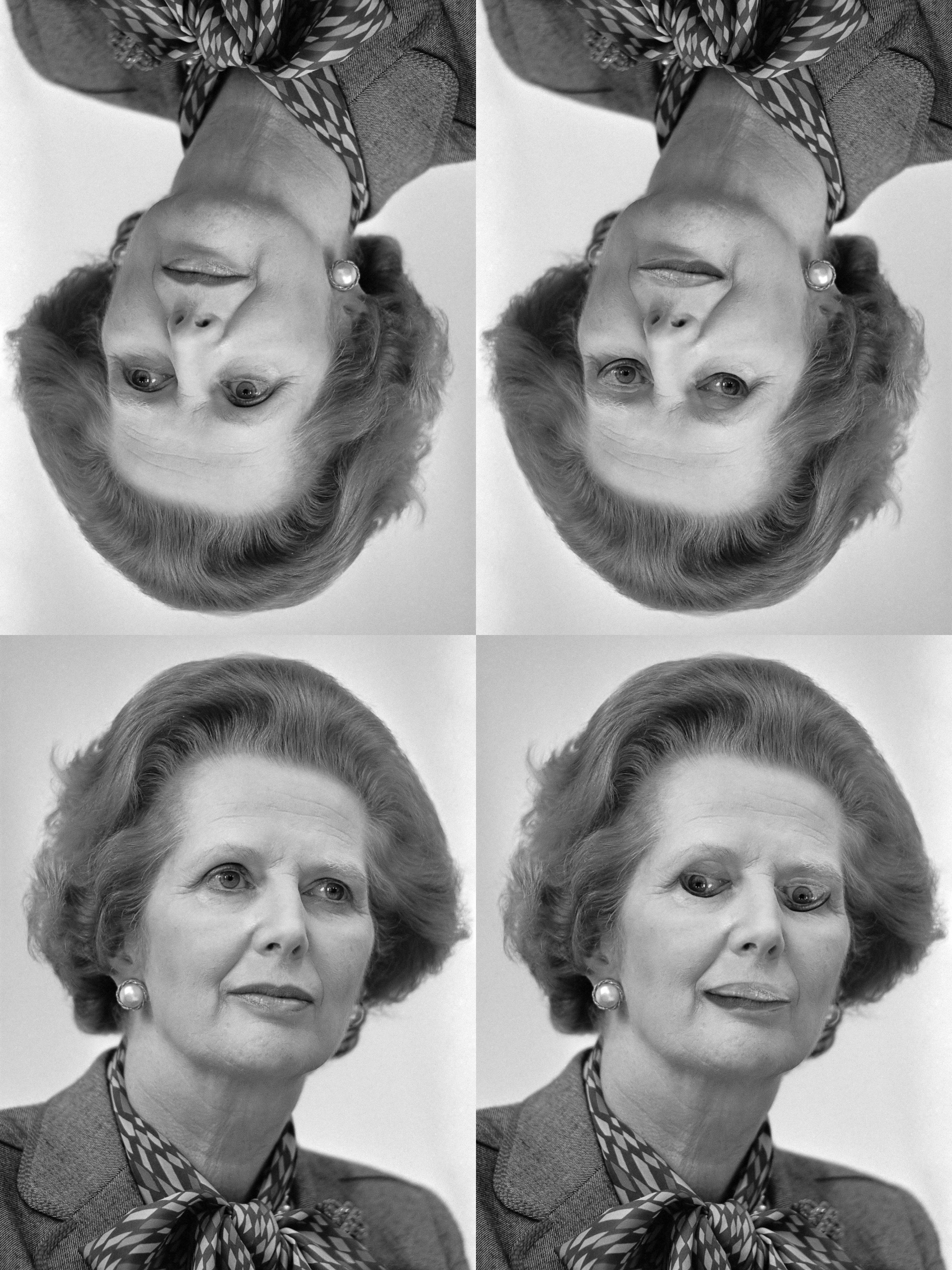 Image manipulation illustrating the Thatcher effect. Upper left: original image, upside-down Upper right: manipulated image, upside-down Lower left: original image Lower right: manipulated image The manipulated image was created by copying the mouth and eyes on a new layer, rotating them around 180 degrees and erasing excess paint around the rotated eyes and mouth till they didn't stick out that much anymore.